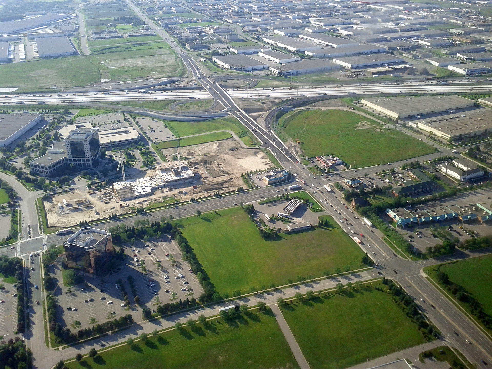 Looking north along Hurontario Street at the interchange with Highway 401 in Mississauga, Ontario.